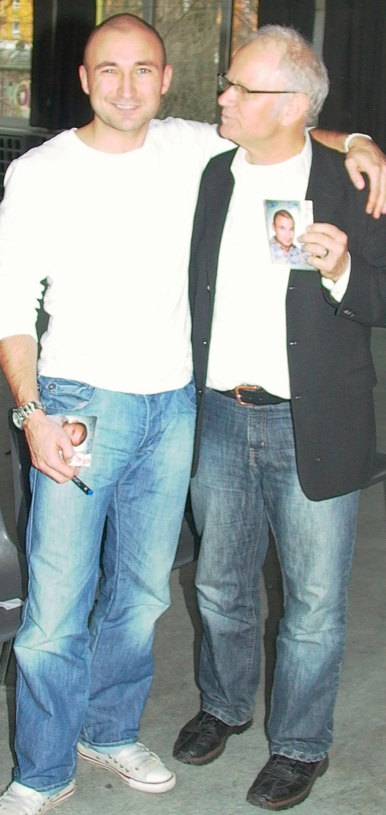 Topal-Fan Günther presents the Comedian while awarding Pupils in Berlin-Kreuzberg 2009